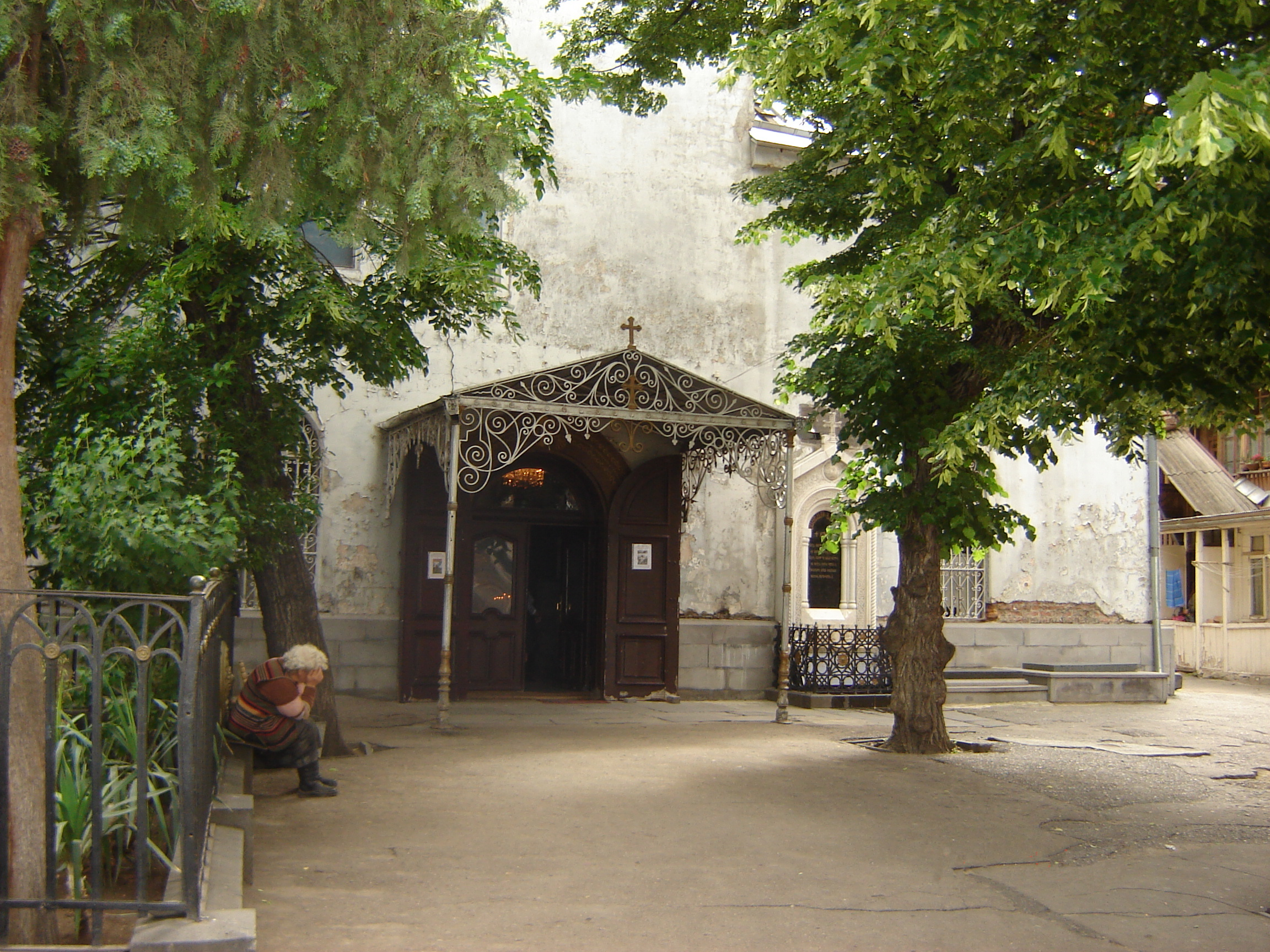 St. Kevork Armenian Apostolic Church, Tbilisi, Georgia(country). Entrance.